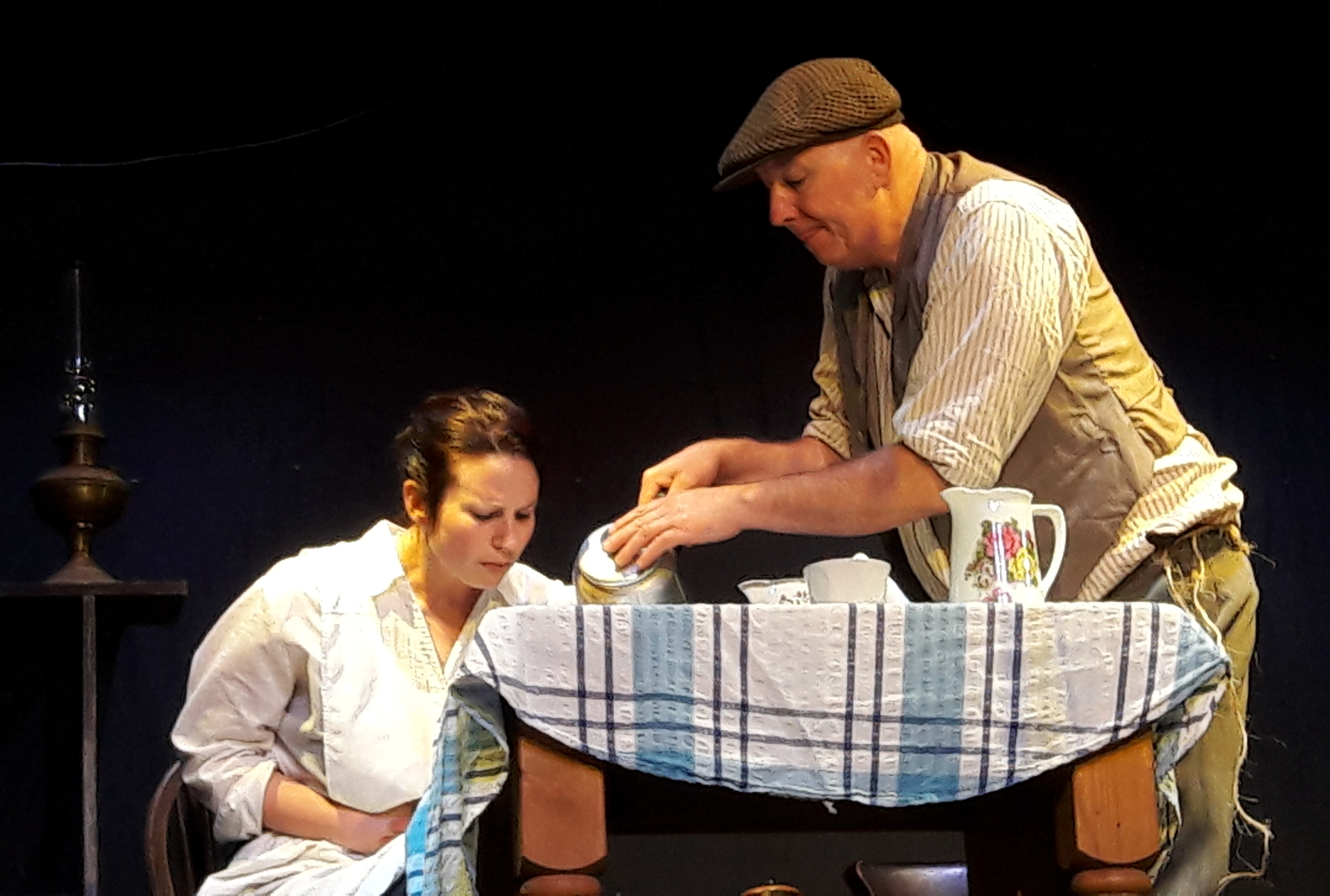 A performance of the Manx dialect play, 'The Charm,' by The Michael Players in 2017